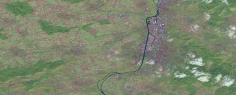 Heilbronn as seen by satellite Landsat 7. Image created with WW2D (